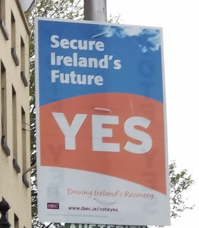 Posters for the Irish European Fiscal Compact referendum, 2012 campaign on lower Ormond Quay in Dublin.